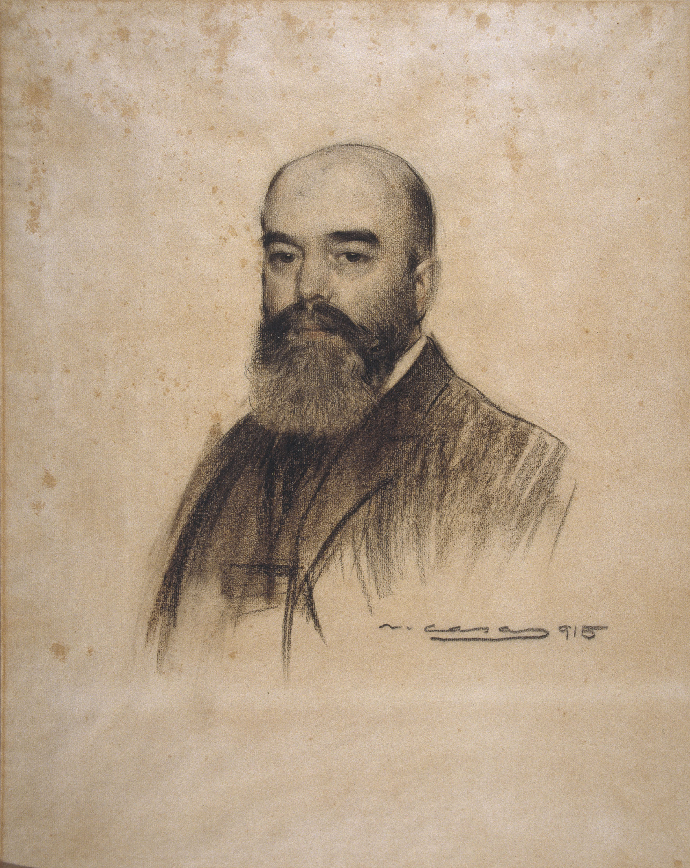 Portrait by Ramon Casas conserved at MNAC in Barcelona. Imagen 175